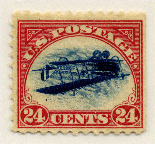 The Smithsonian's 1918 Inverted Jenny